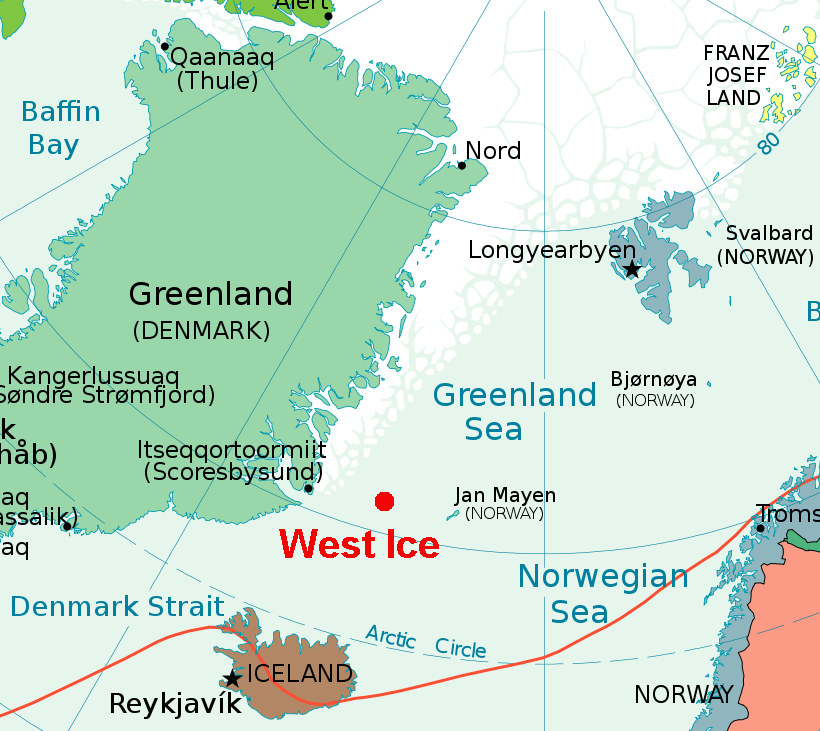 Map of the Greenland Sea (North Pole projection) with the West Ice approximately marked